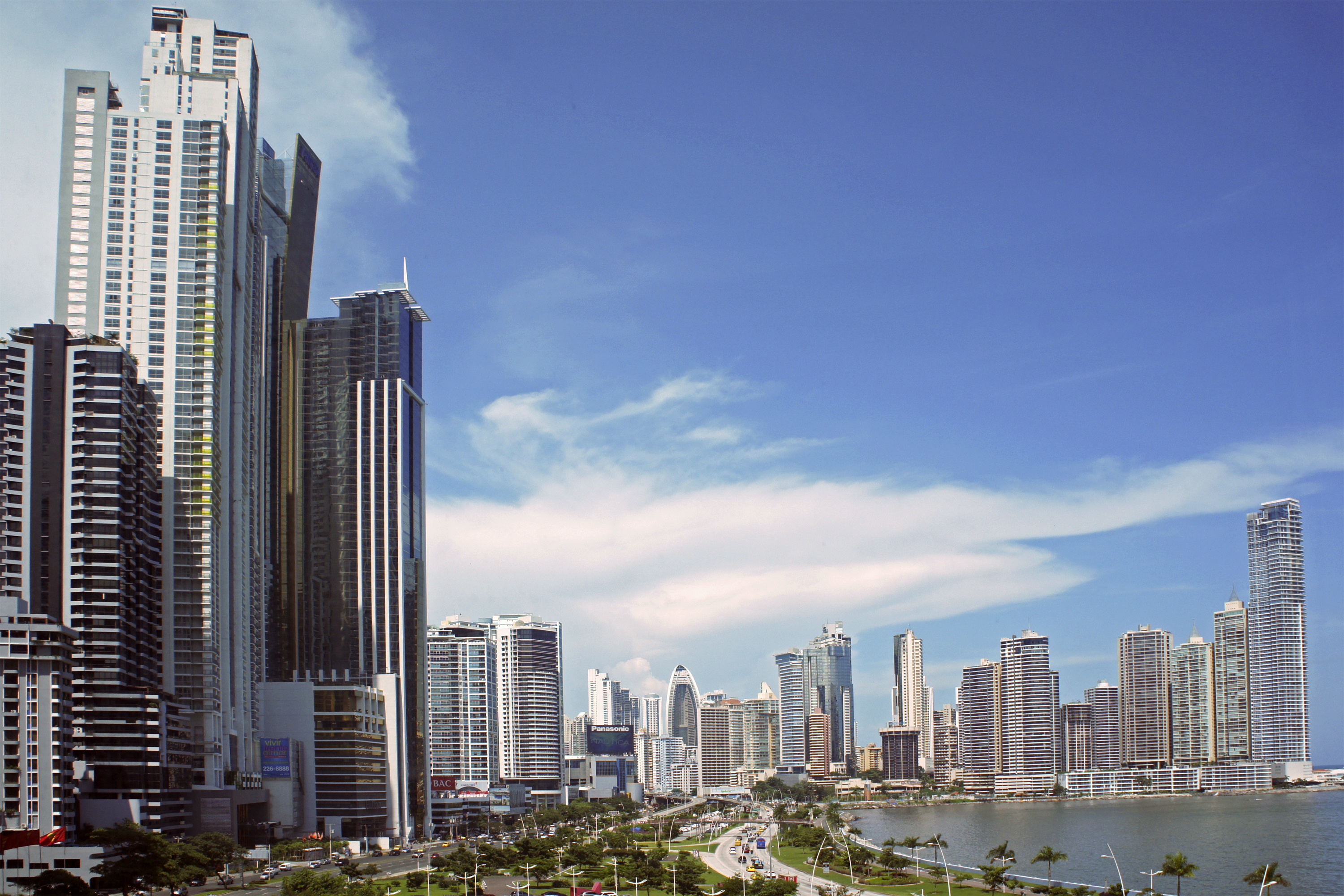 Skyline Panama City, near Balboa Avenue and Punta Paitilla